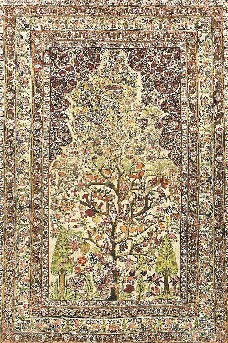 Tuba Tree - Carpet Board - Mashhad Museum